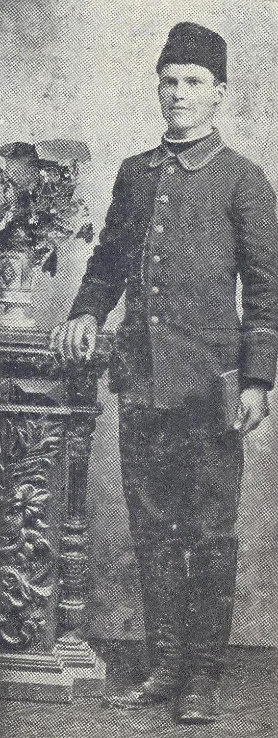 Aleksandar Stambolijski, student in Halle (Saale), Germany, 1900's.